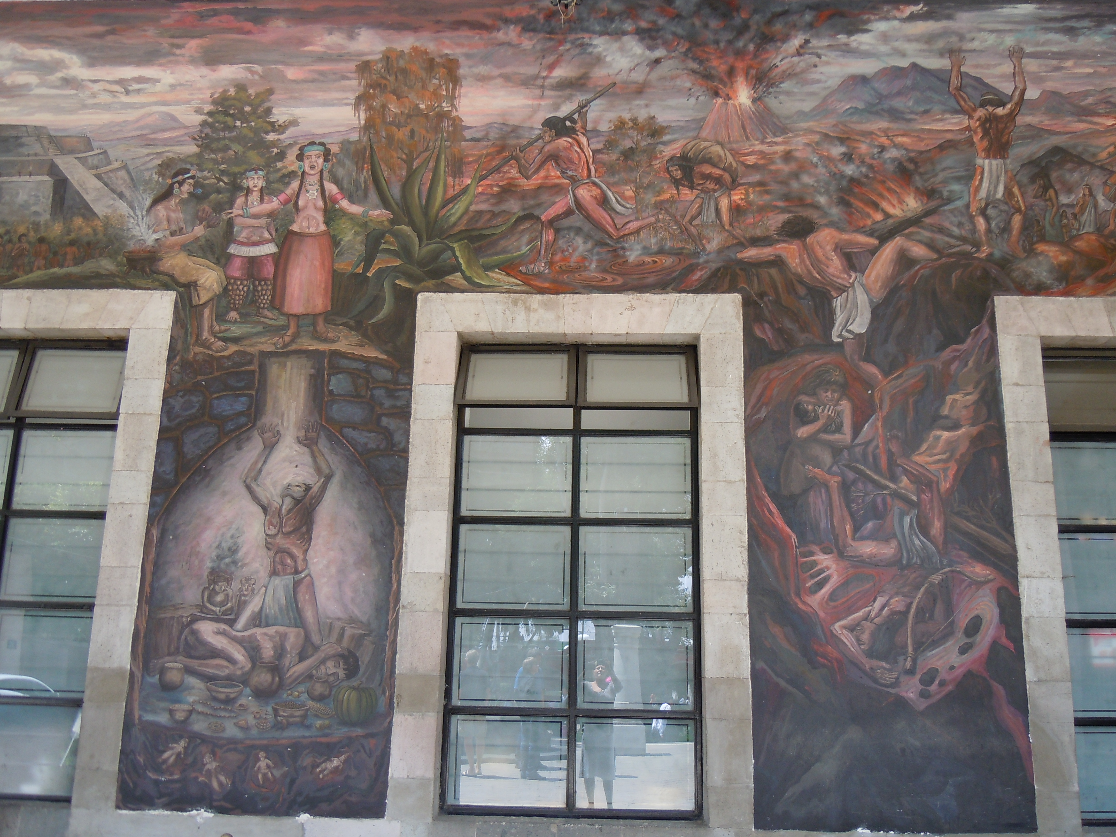 Wallpainting at the Edificio Delegacionales in Tlalpan/Mexico-City